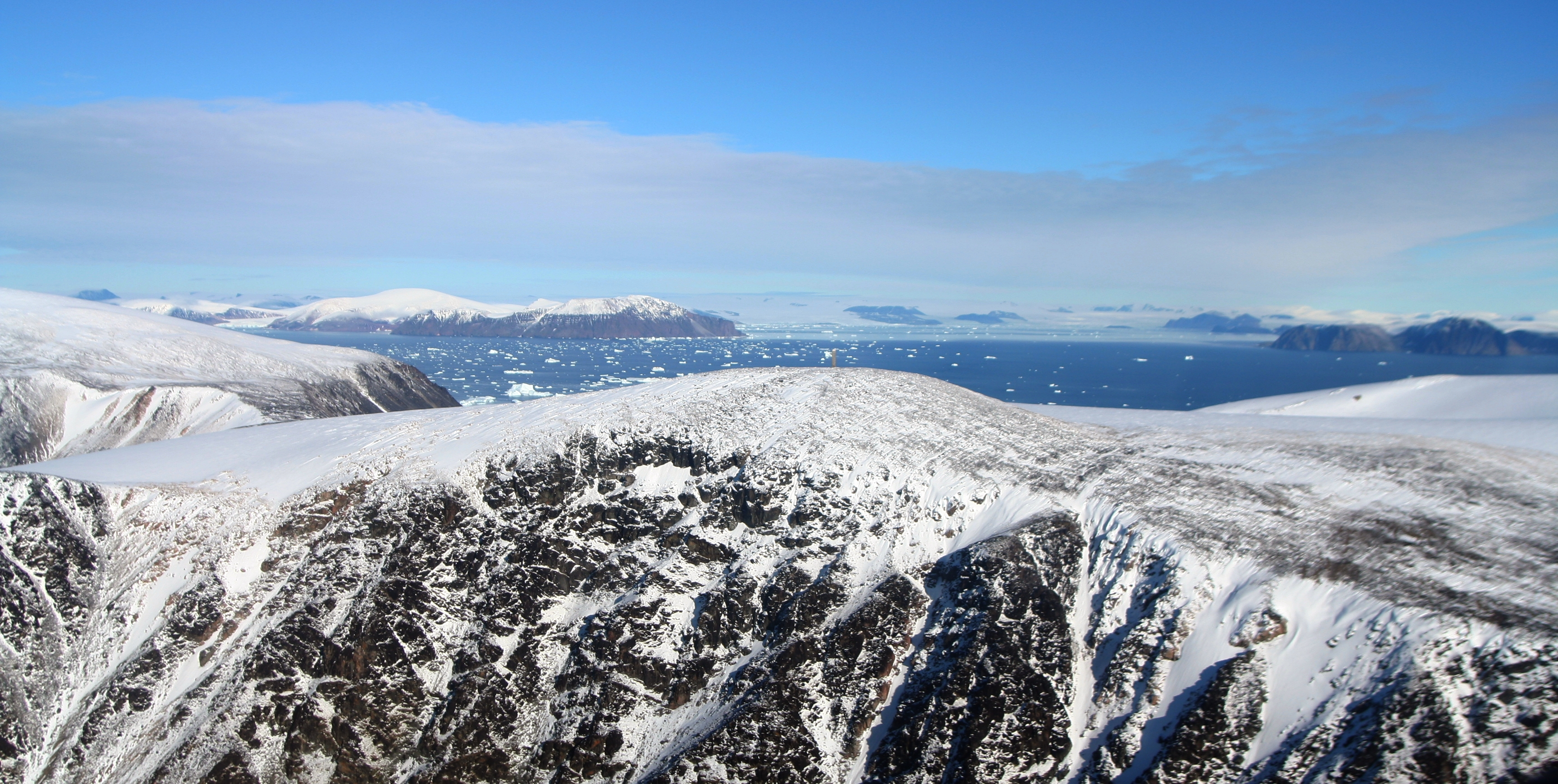 Monument to Robert Peary is clearly seen at Cape York, Greenland. The picture was taken from a helicopter.